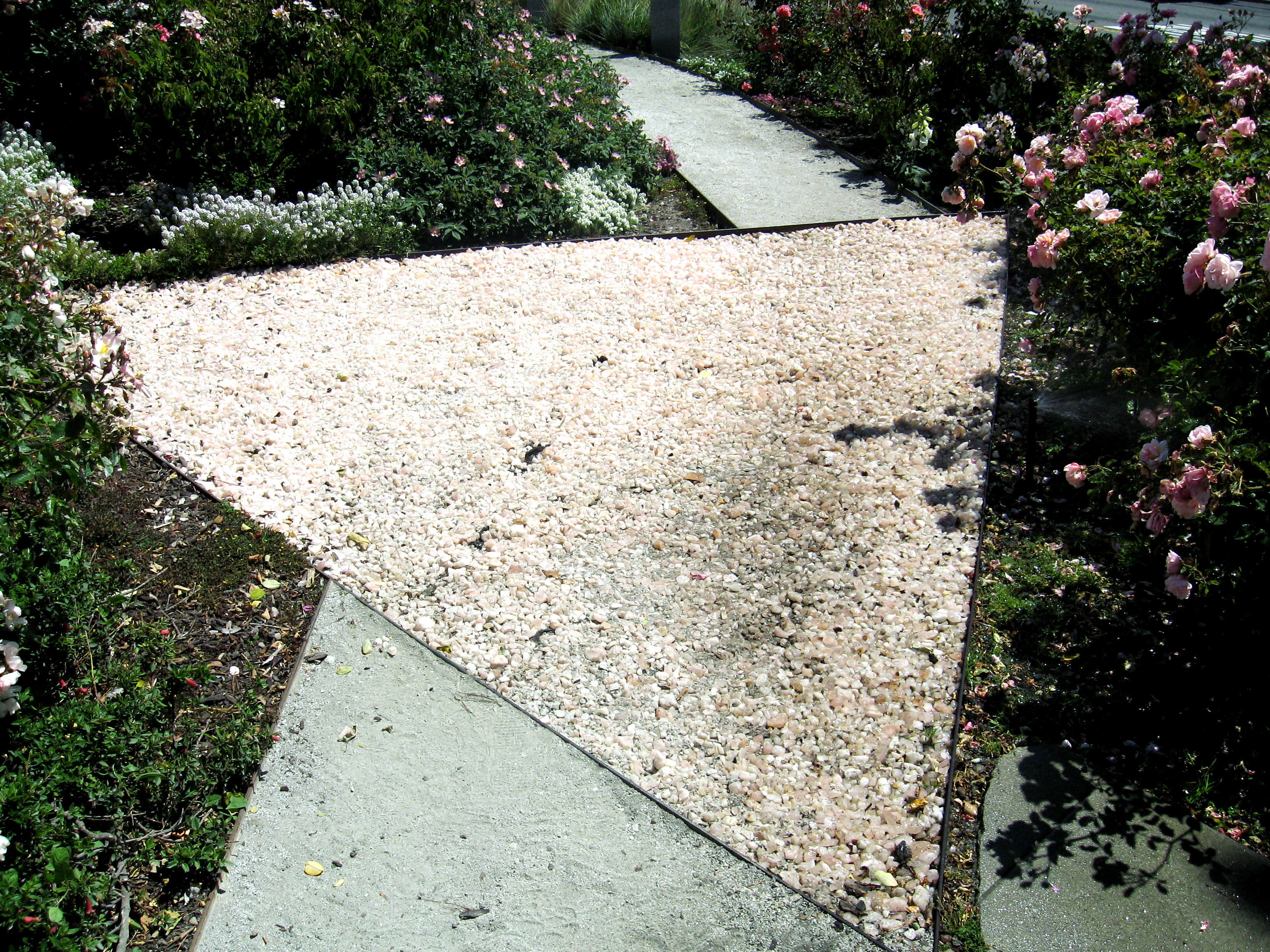 Pink Triangle Park and Memorial